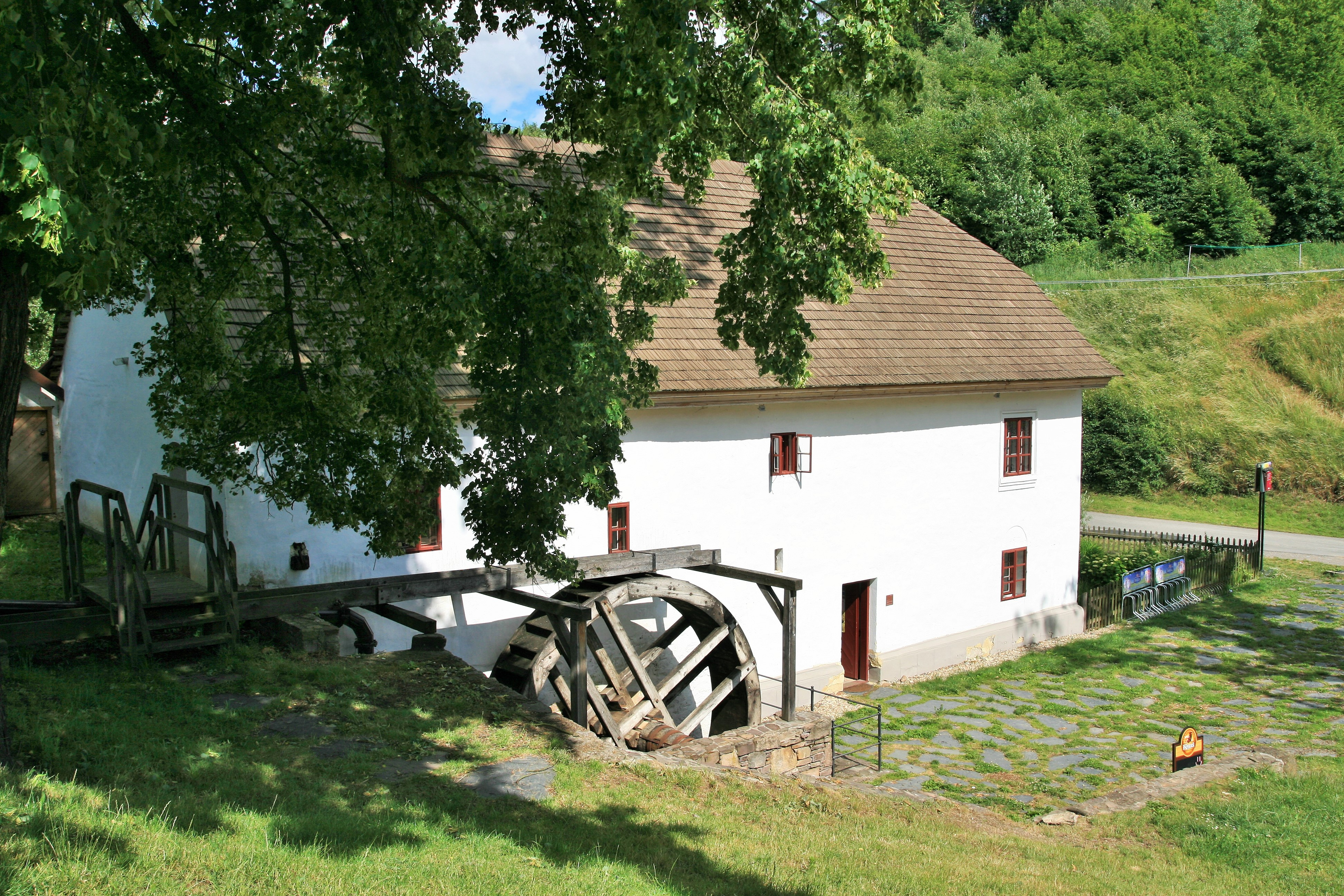 Porč water-mill in Býkovice, Blansko District.